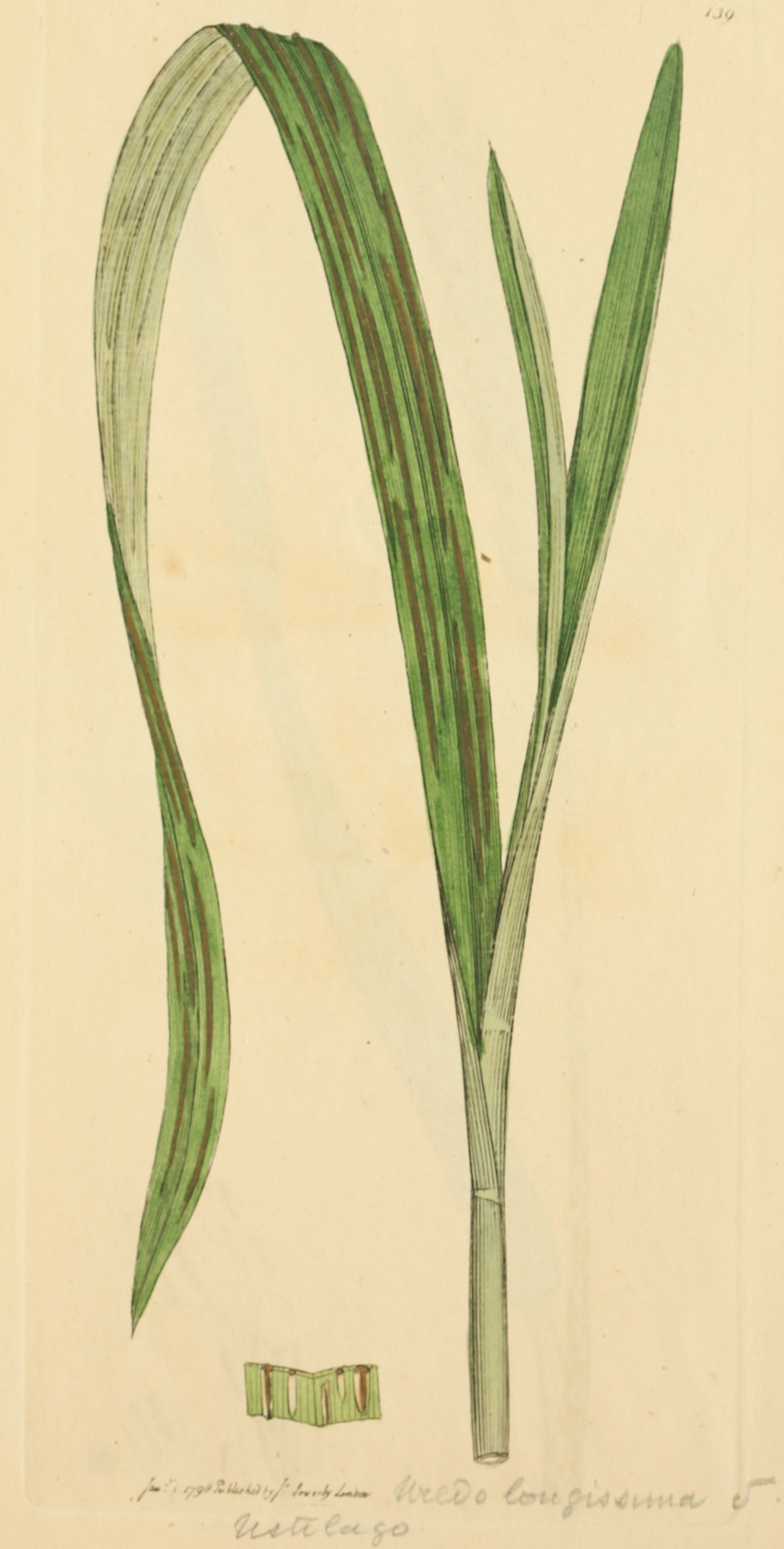 This is a plate from James Sowerby's Coloured Figures of English Fungi or Mushrooms.